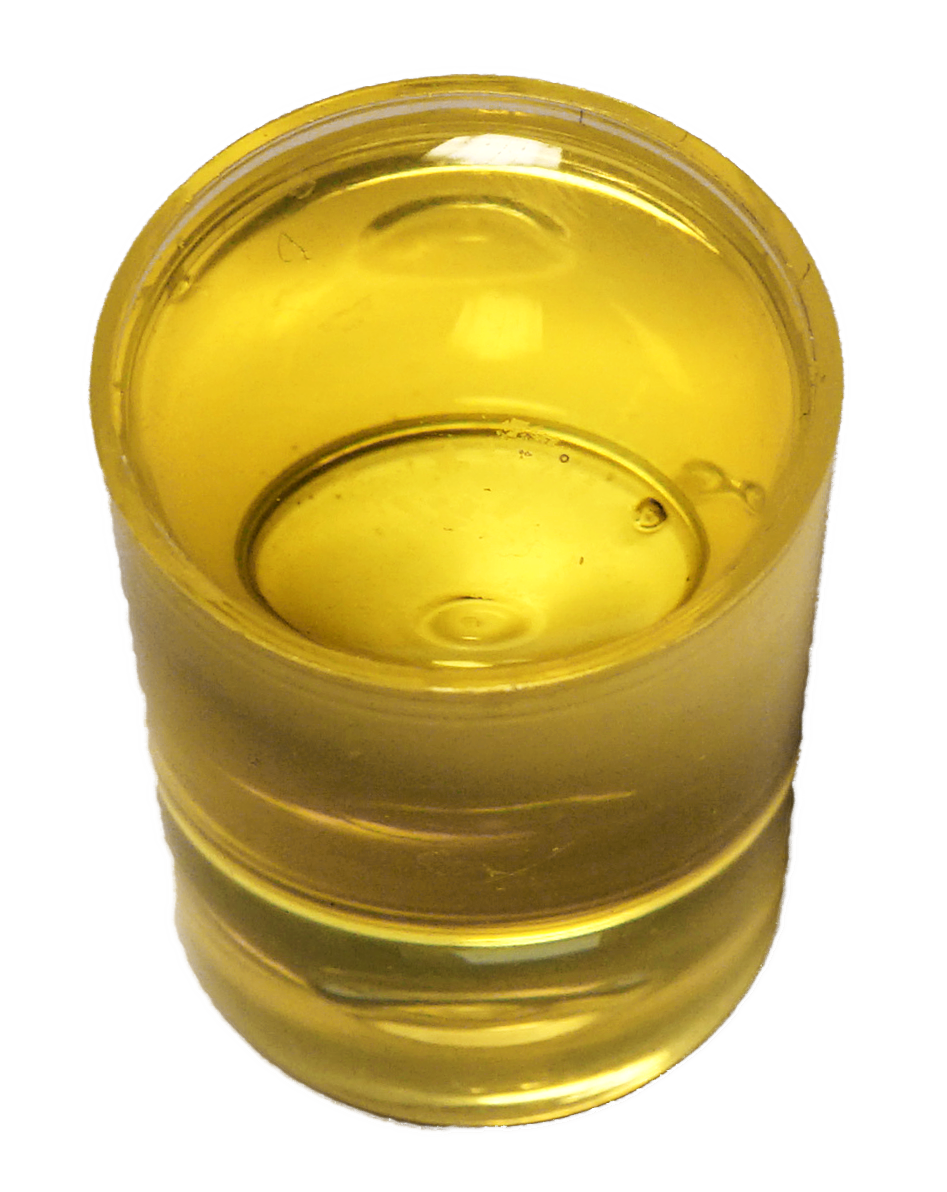 Möller's cod liver oil in a small plastic cup.